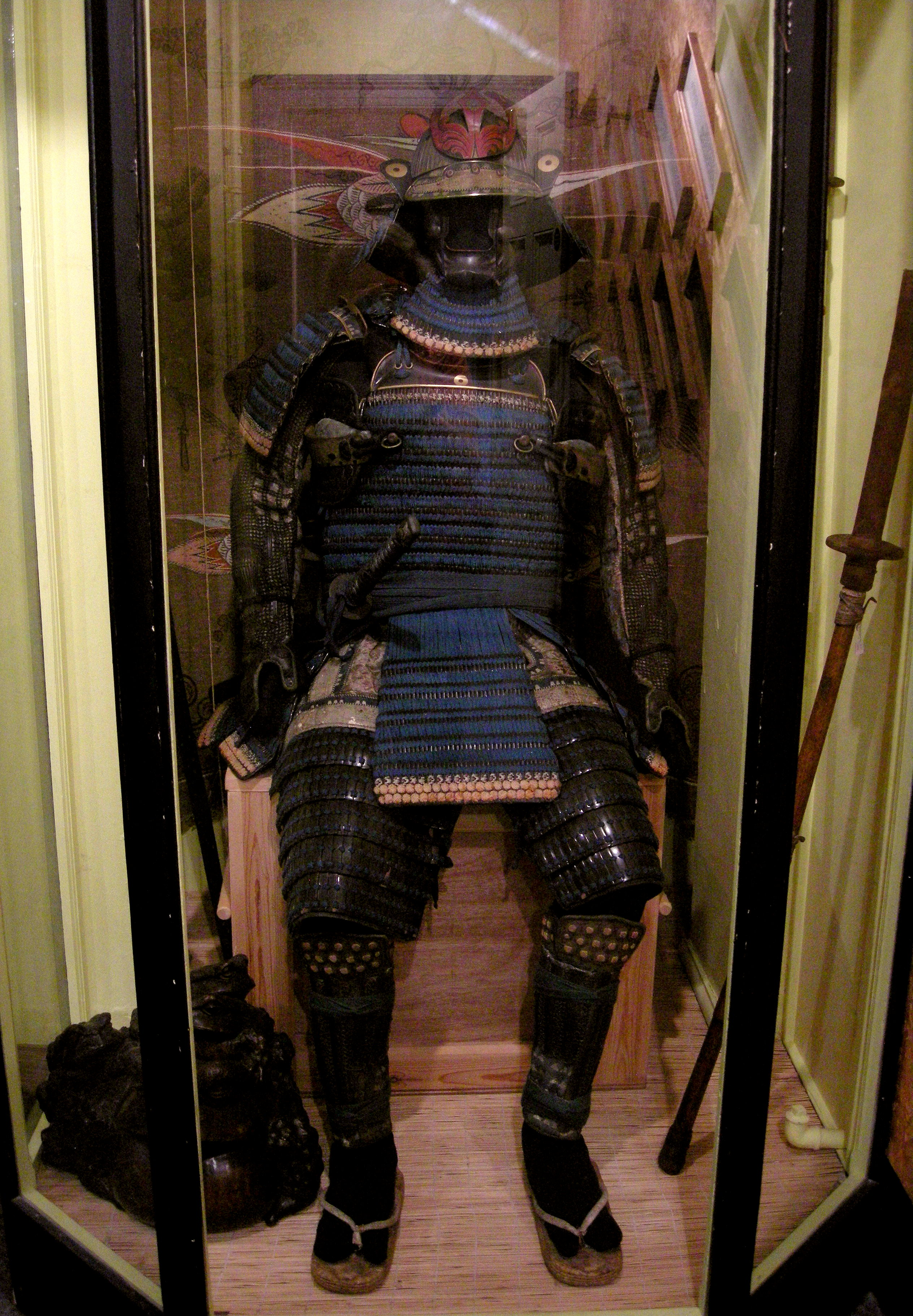 Bankfield Museum, Halifax, West Yorkshire, England. 53.43'.57".N; 1.51'.48".W.